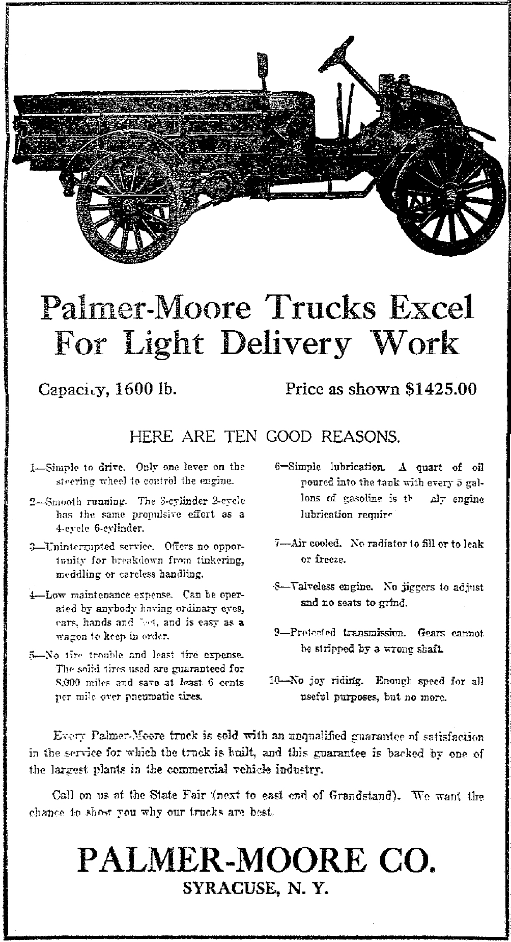 Palmer-Moore Company - Advertisement 1913 - "Low maintenance expense. Can be operated by anybody having ordinary eyes, ears, hands and feet, and is easy as a wagon to keep in order"